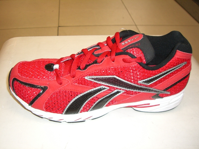 Reebok TAIKAN 2009